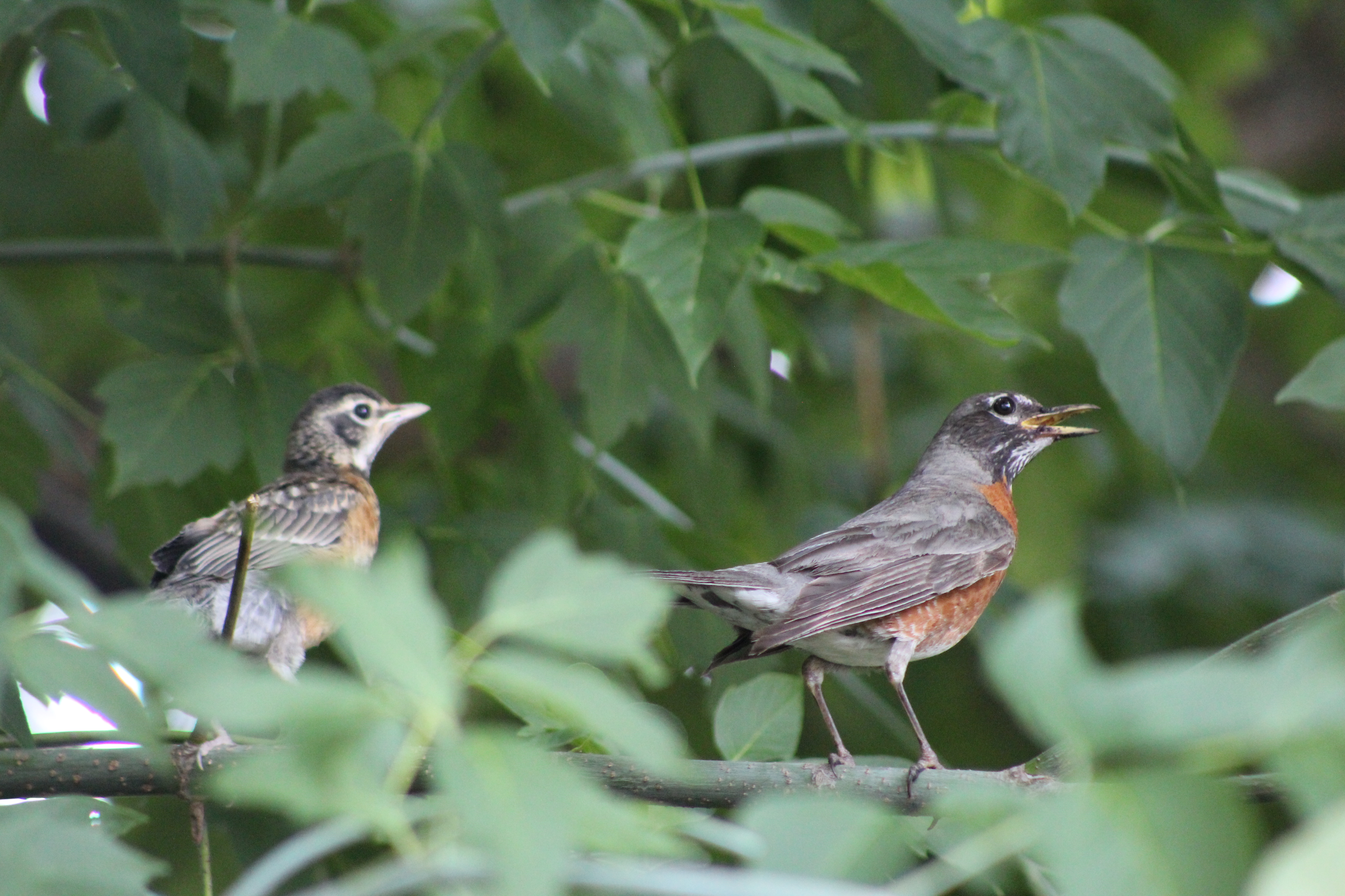 Taken in Toronto, Canada. A fledgling was sitting by him/herself. The parent flew to them in the tree it was perching in.